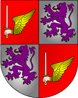 Arms of the Portuguese Manuel/ Manoel family, Dukes of Tancos. Made by JSobral